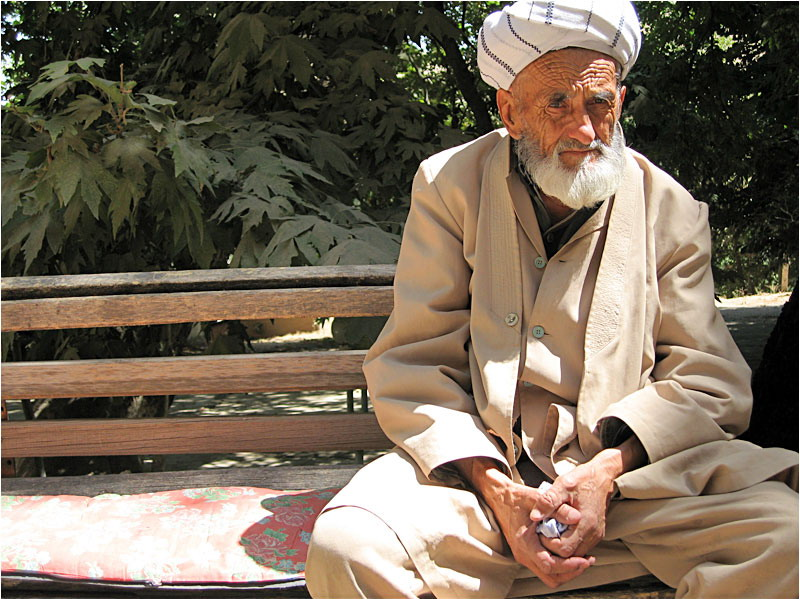 Old uzbek man from central Uzbekistan.